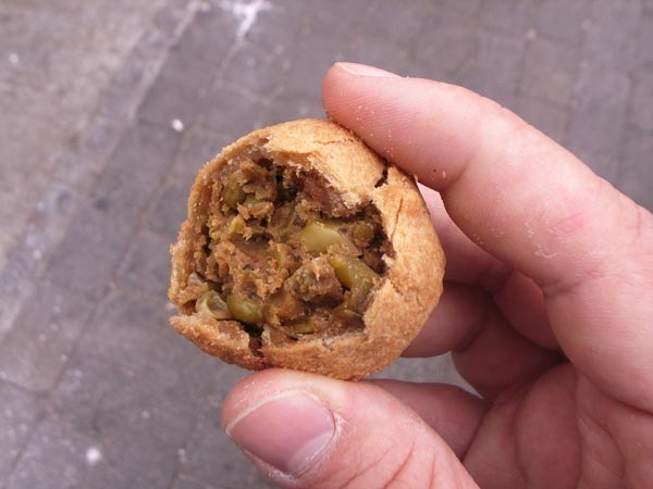 A Gujarati Lilva Kachori, spicy Indian apetizer